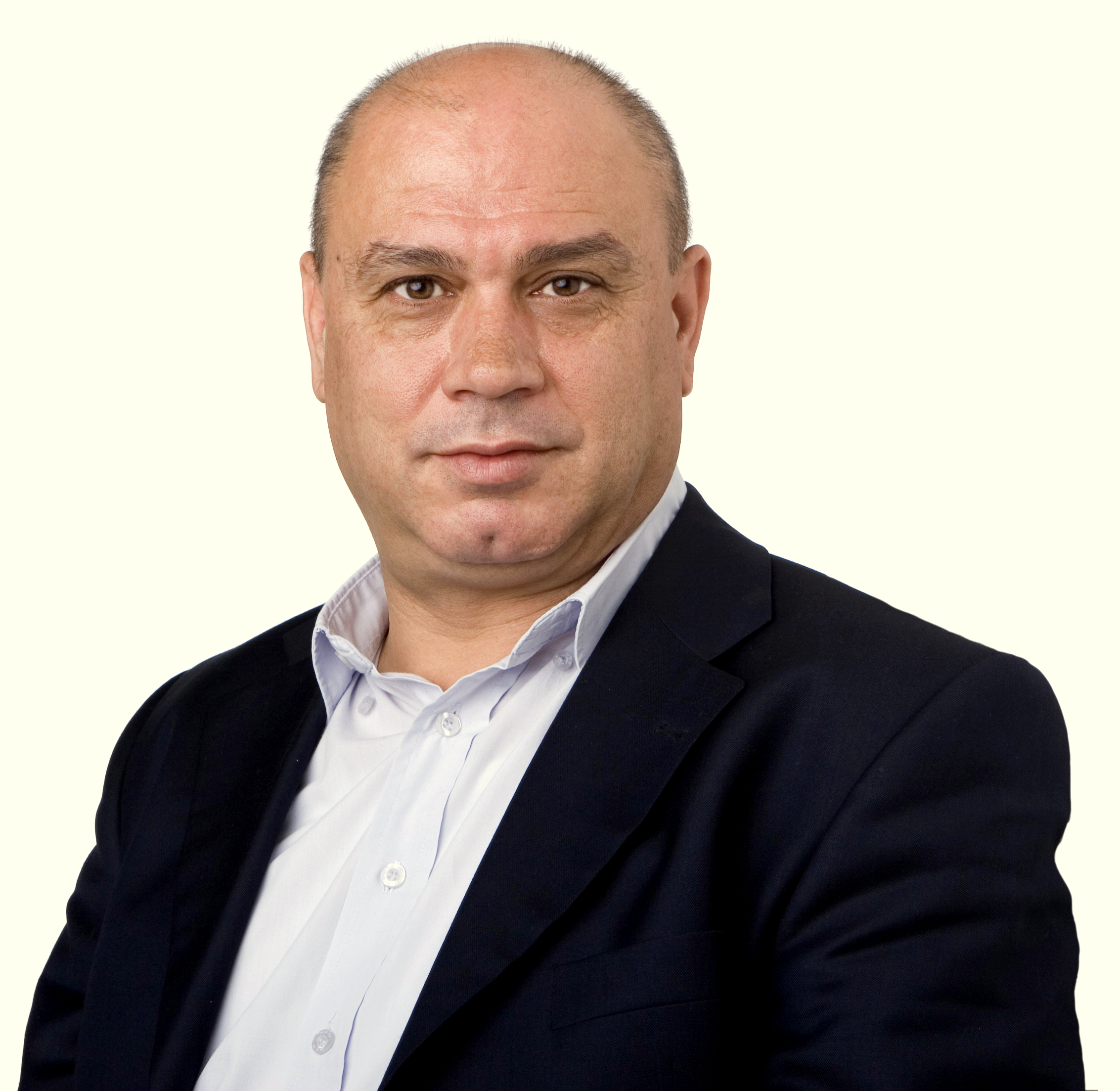 Issawi Frej is an Israeli politician. A member of Meretz, he was placed fifth on the party's list for the 2013 Knesset elections.